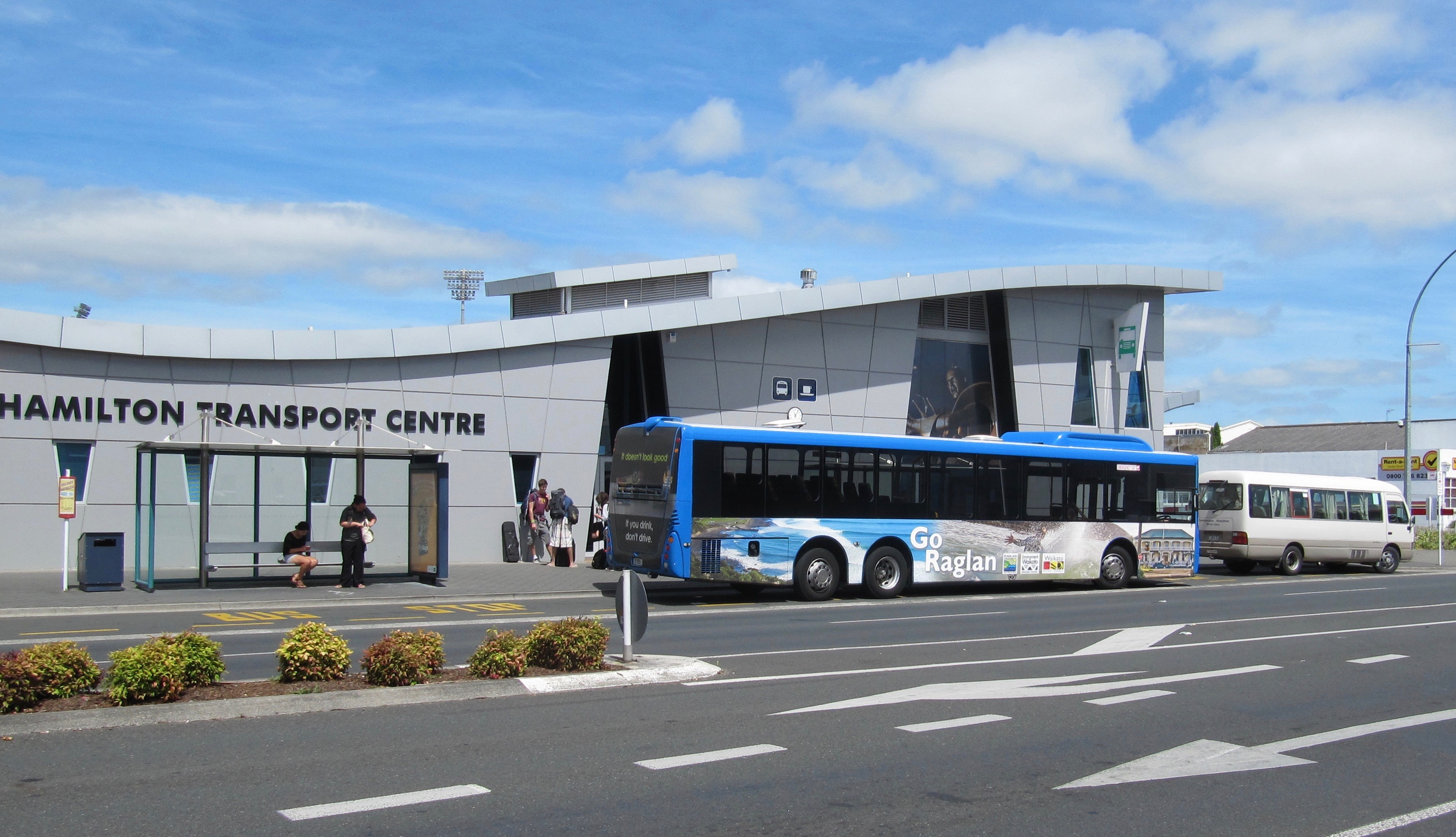 Buses for Tauranga, Raglan, Cambridge, Te Awamutu and Huntly stop on roads adjoining the Transport Centre.